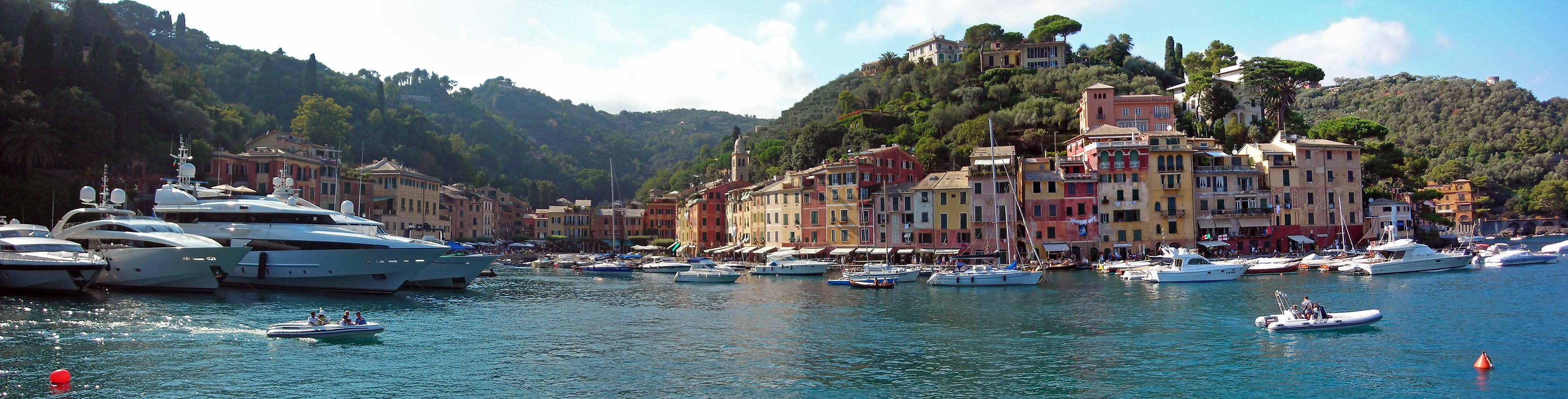 Panoramic view over Portofino, Italy.